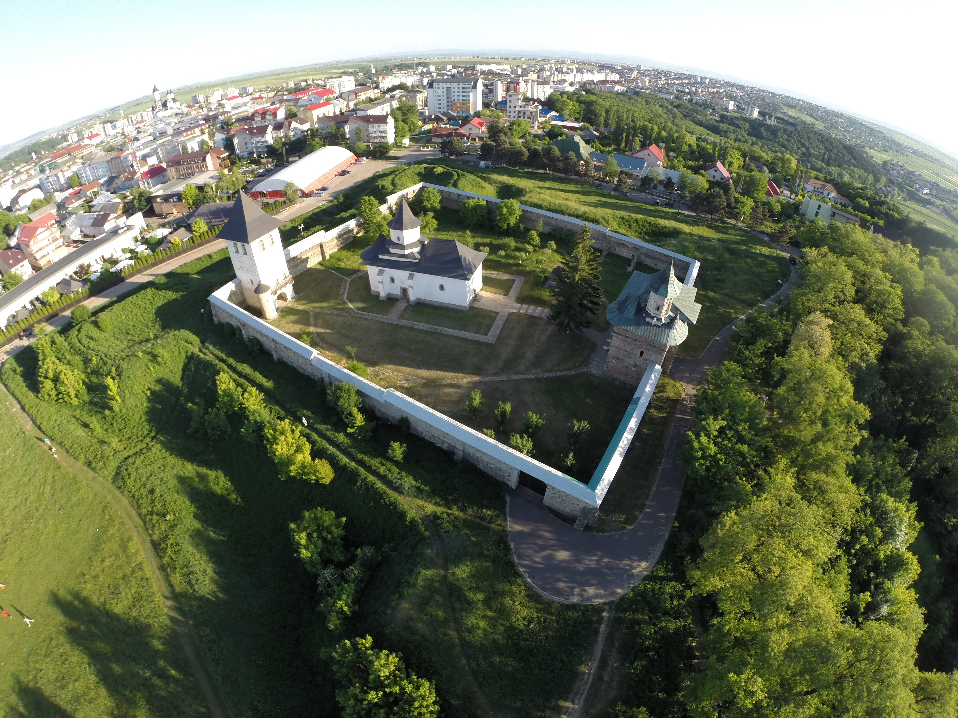 Zamca Monastery in Suceava - aerial view.